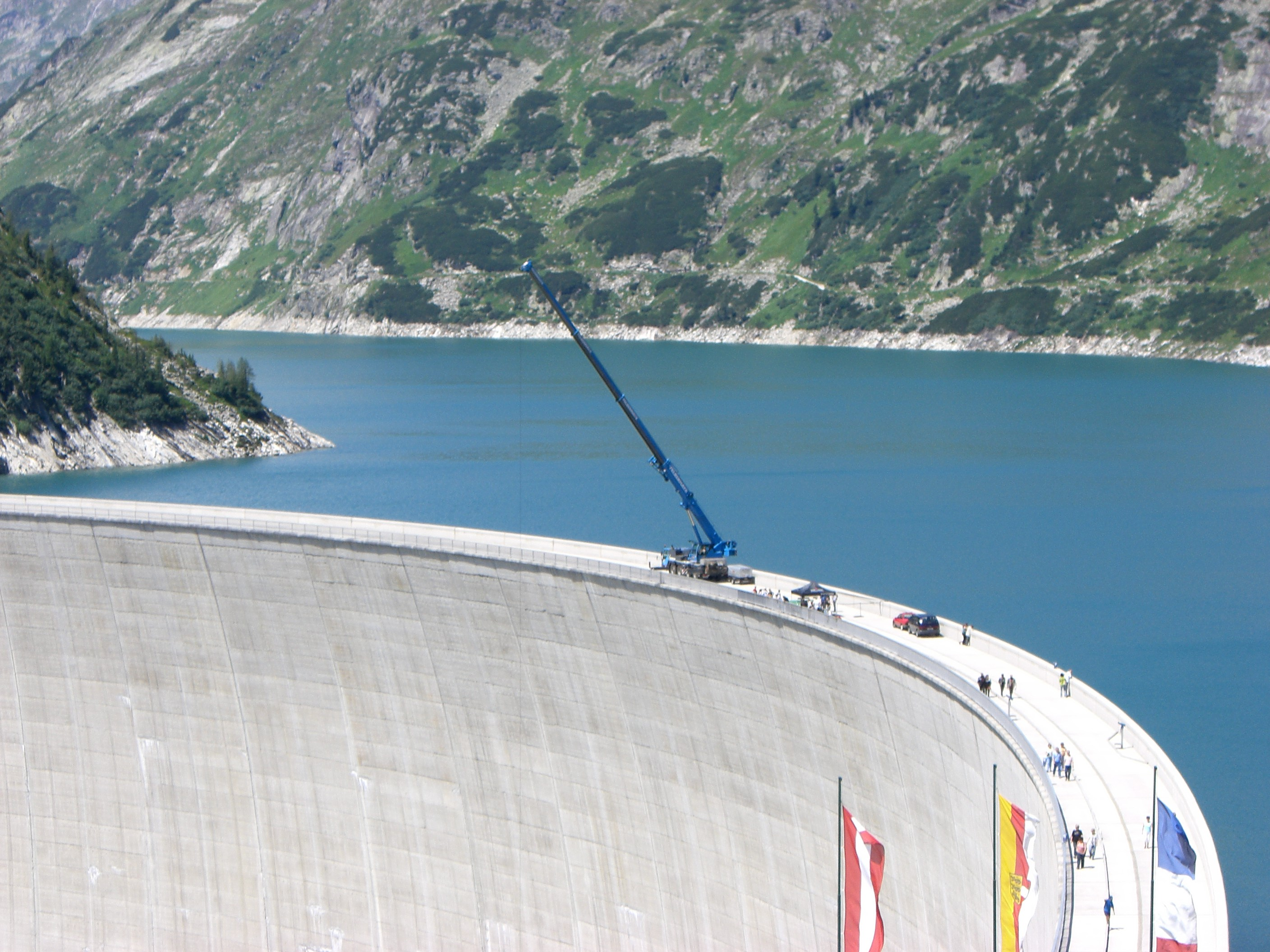 Bungee-Jumping from Kölnbreinsperre